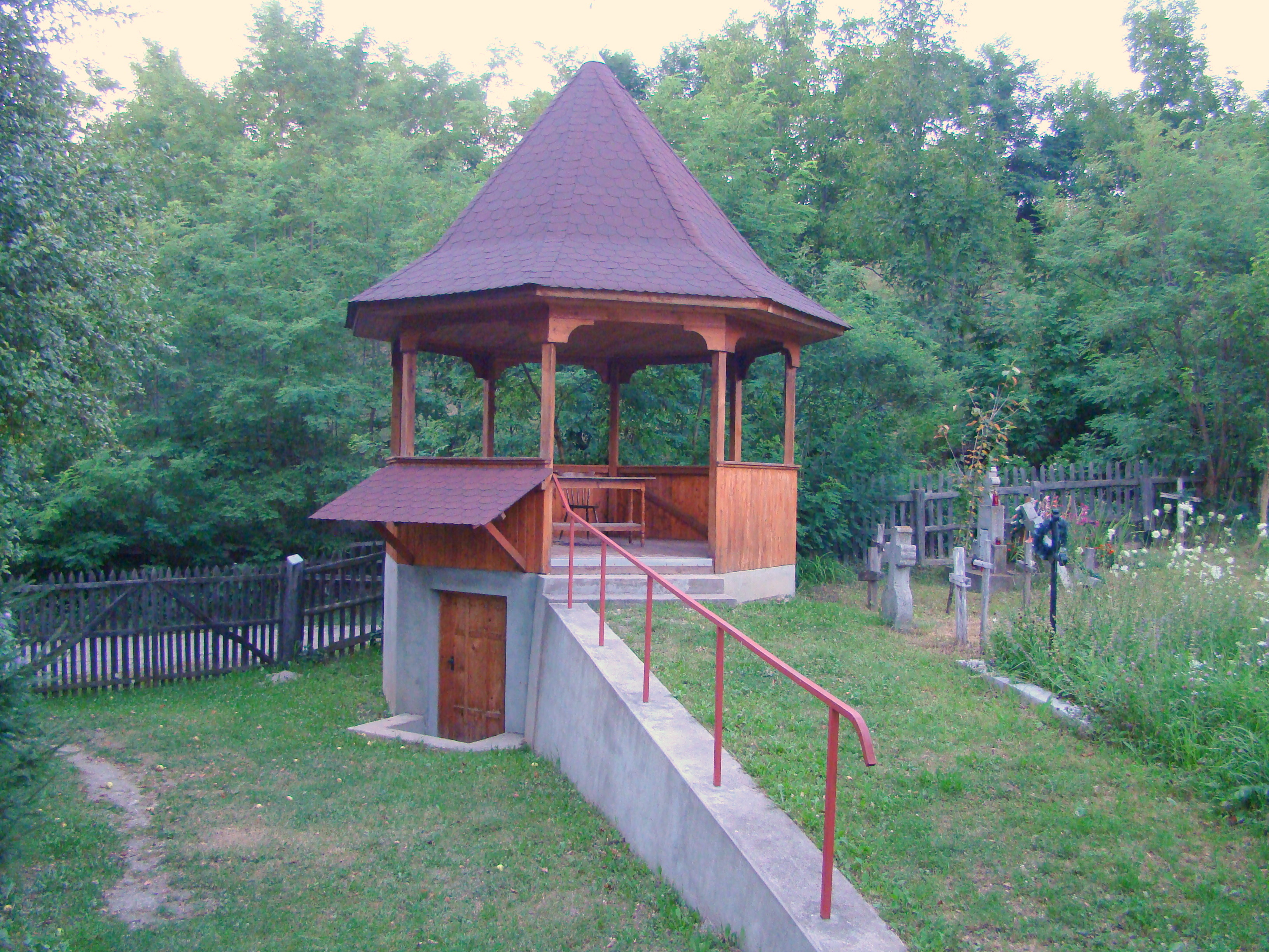 Orthodox church of the Pious Saint Paraskeva in Meteș, Alba county, Romania